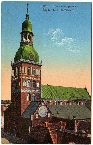 Riga Dome Cathedral, Latvia